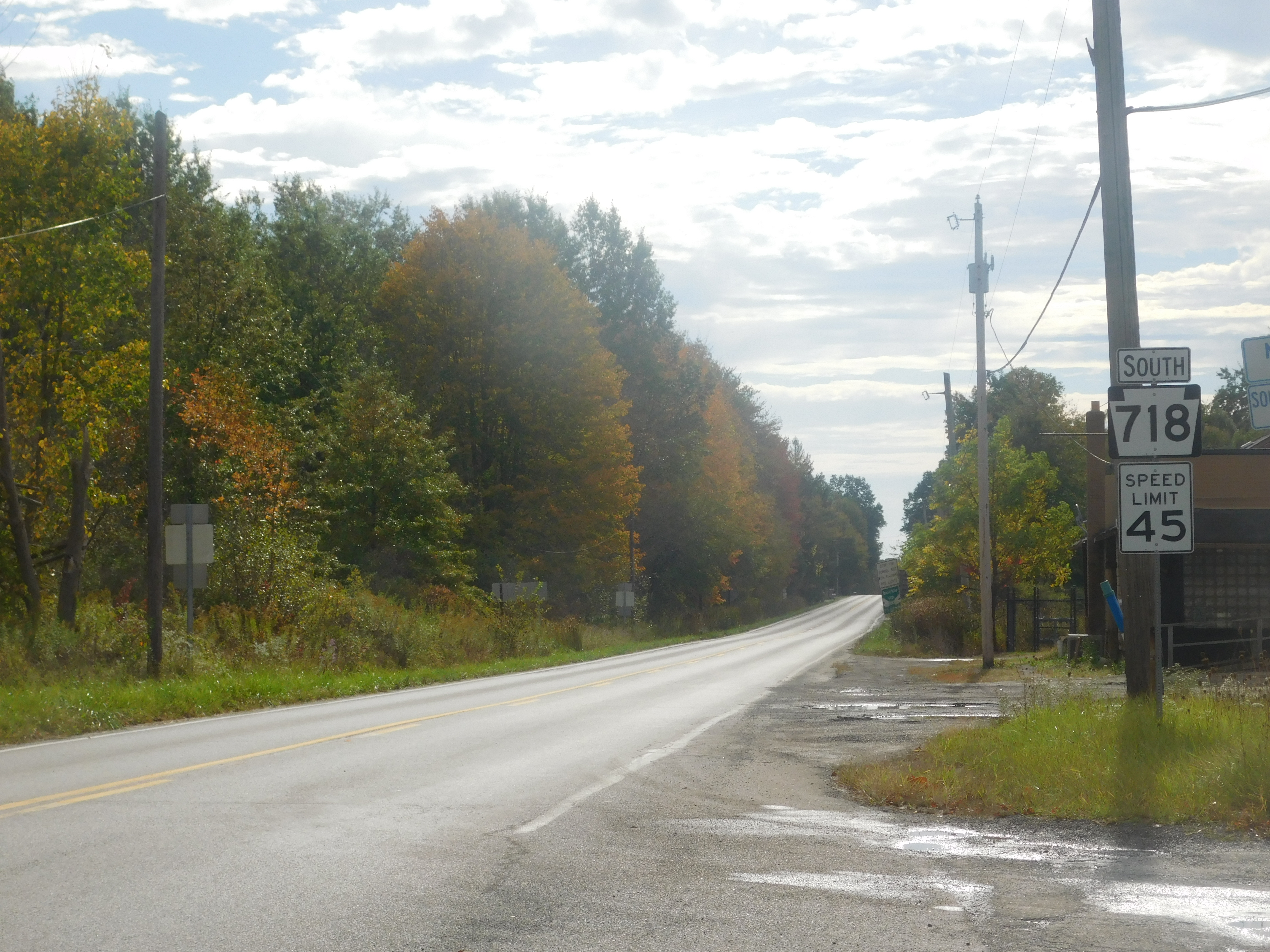 Pennsylvania Route 718 at the Ohio-Pennsylvania state line.